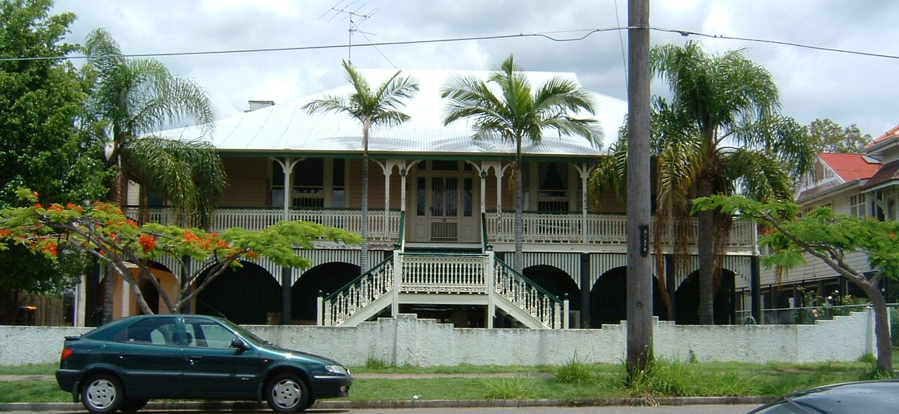 A Queenslander in New Farm. Photo taken by User:Adz on 8 August 2005.